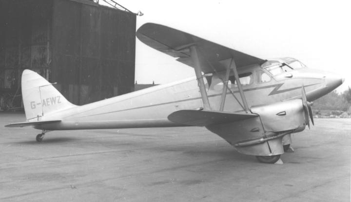 de Havilland DH.90 Dragonfly of Silver City Airways at Blackbushe, Hants